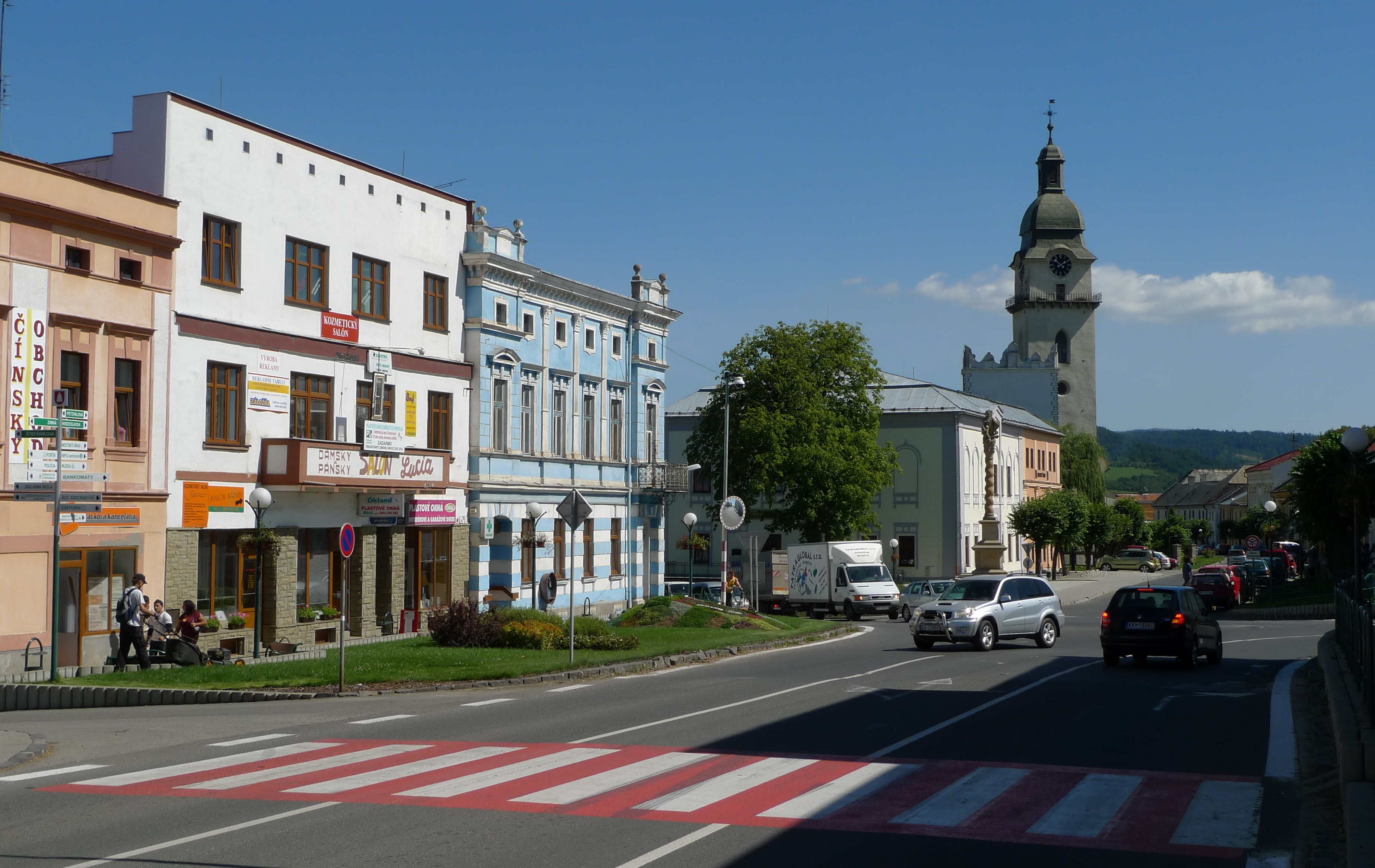 Main crossing in Spišská Belá, Slovakia